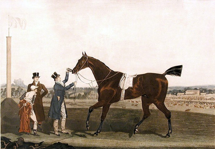 James Pollard (1792-1867). Engraving by James Pollard (1792-1867). Artist has been dead for 145 years.